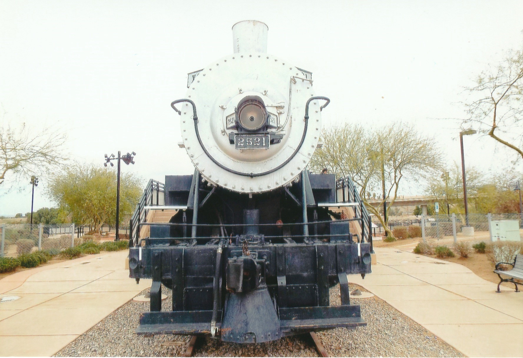 Southern Pacific Railroad locomotive 2521 - was built by the Baldwin Locomotive Works (31436 of 1907).